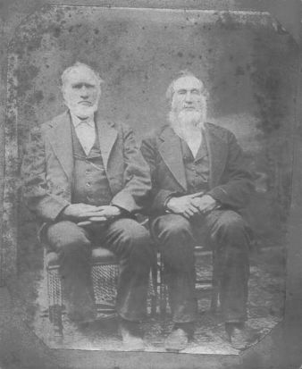 John Comstock, 1802-1879, founder of Liberty Mills, Indiana